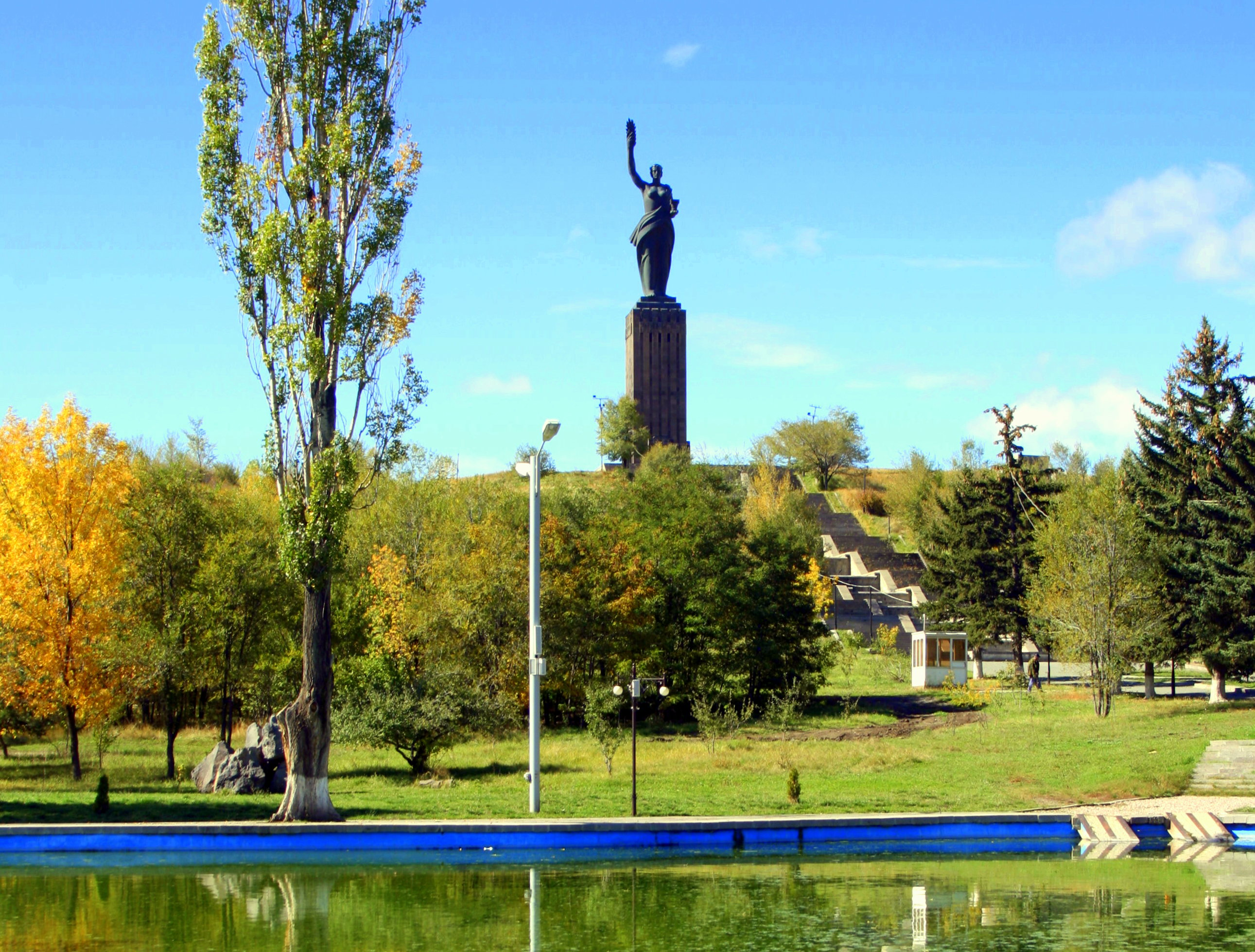 Statue of Mother Armenia, Gyumri. 1/20